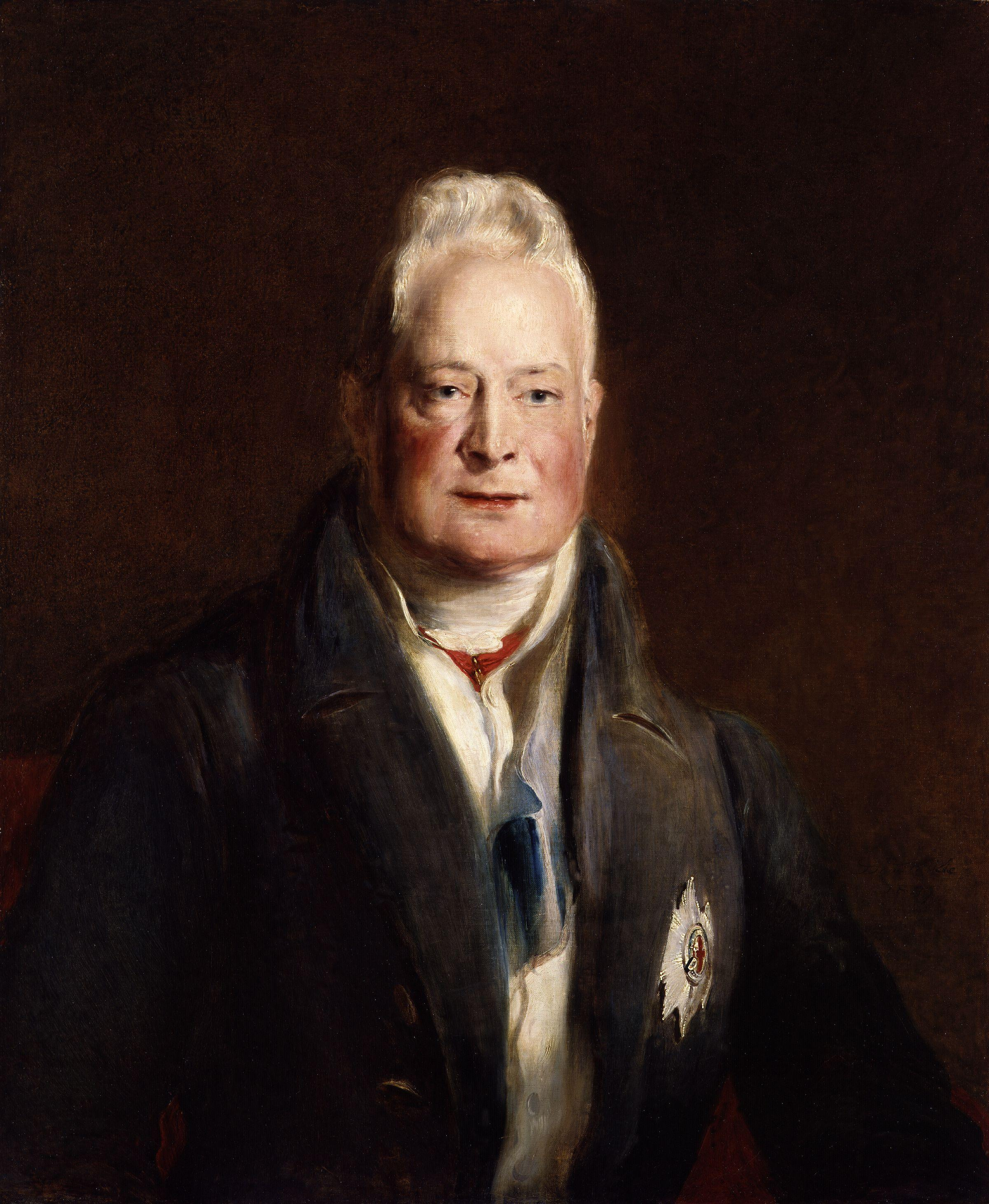 King William IV, by Sir David Wilkie (died 1841). All images in this batch have been confirmed as author died before 1939 according to the official death date listed by the NPG.